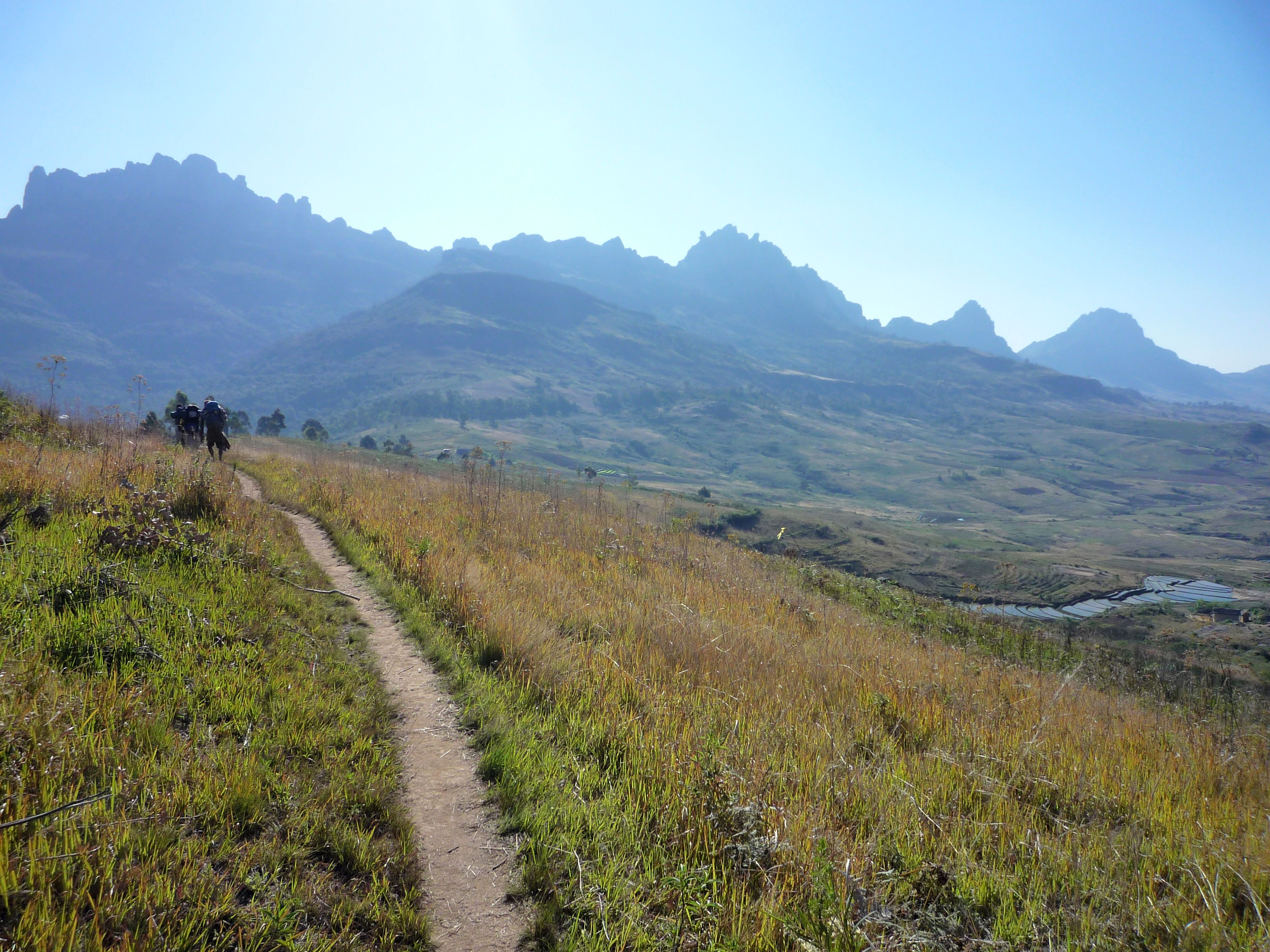 The trail up to Pic Boby, Andringitra National Park, Madagascar.